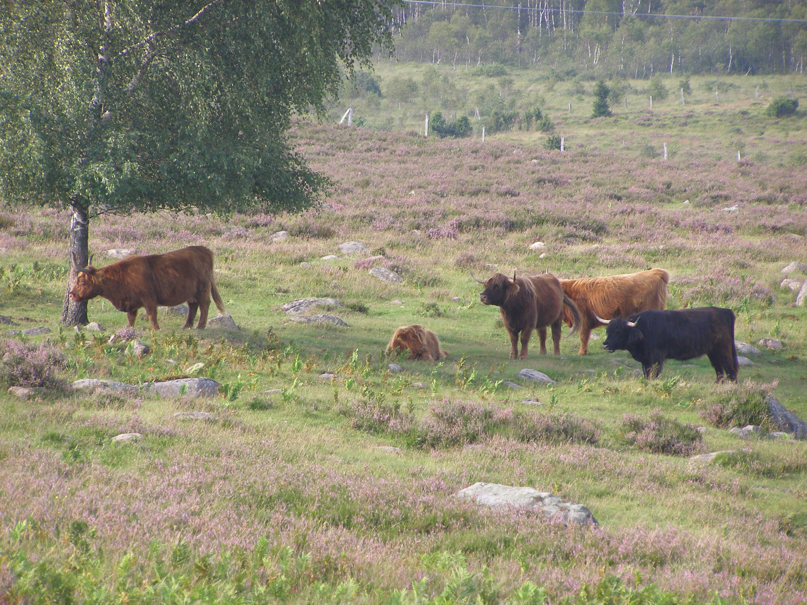 Highland cattle at Mästocka ljunghed, Halland, Sweden